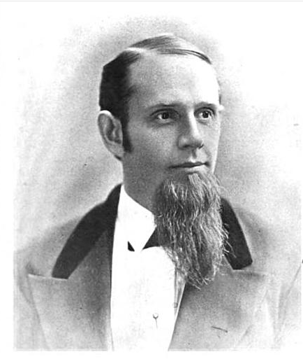 Future Senator Mark Hanna, around 1877